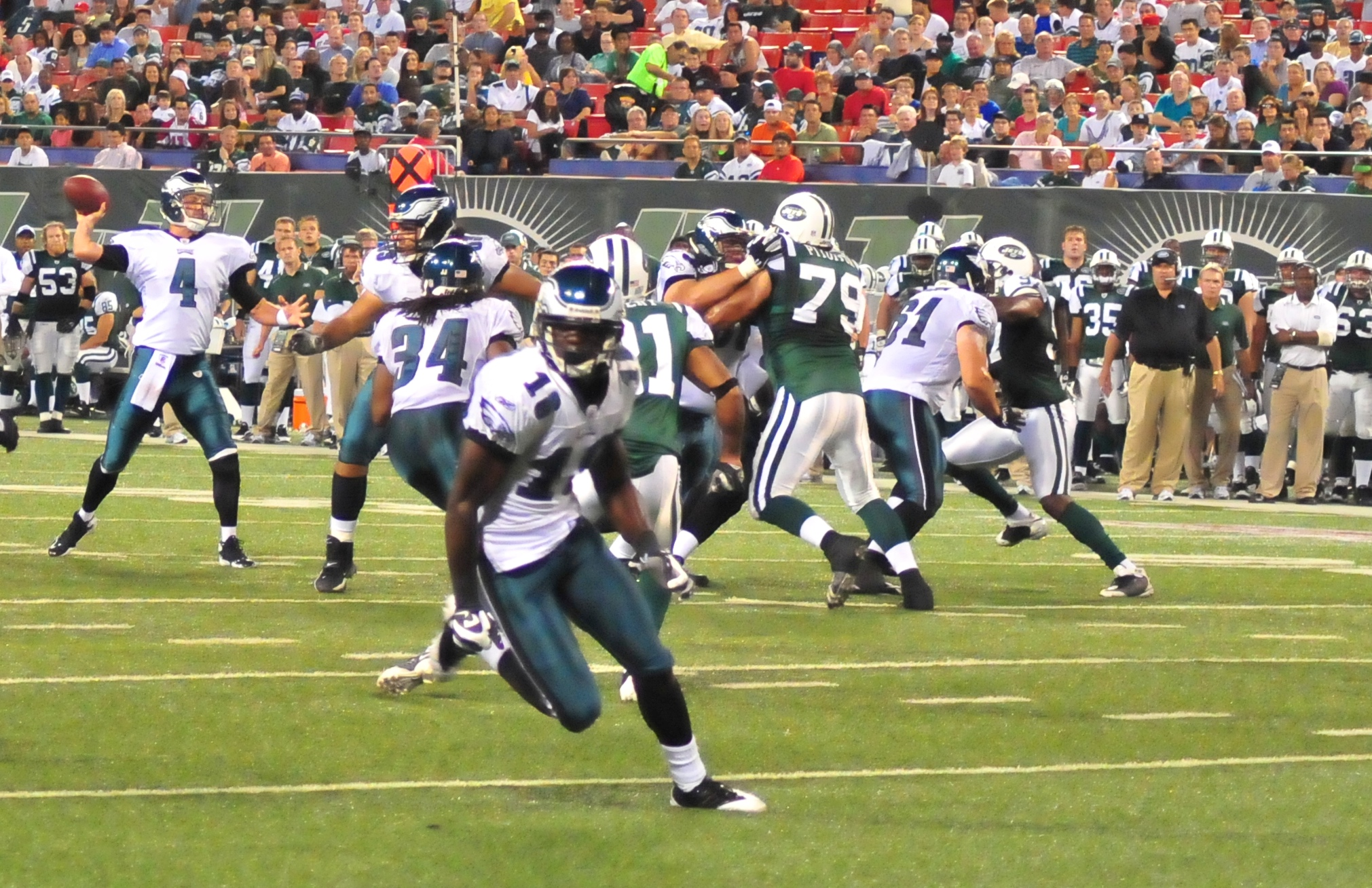 Jeremy Maclin playing for the Eagles.